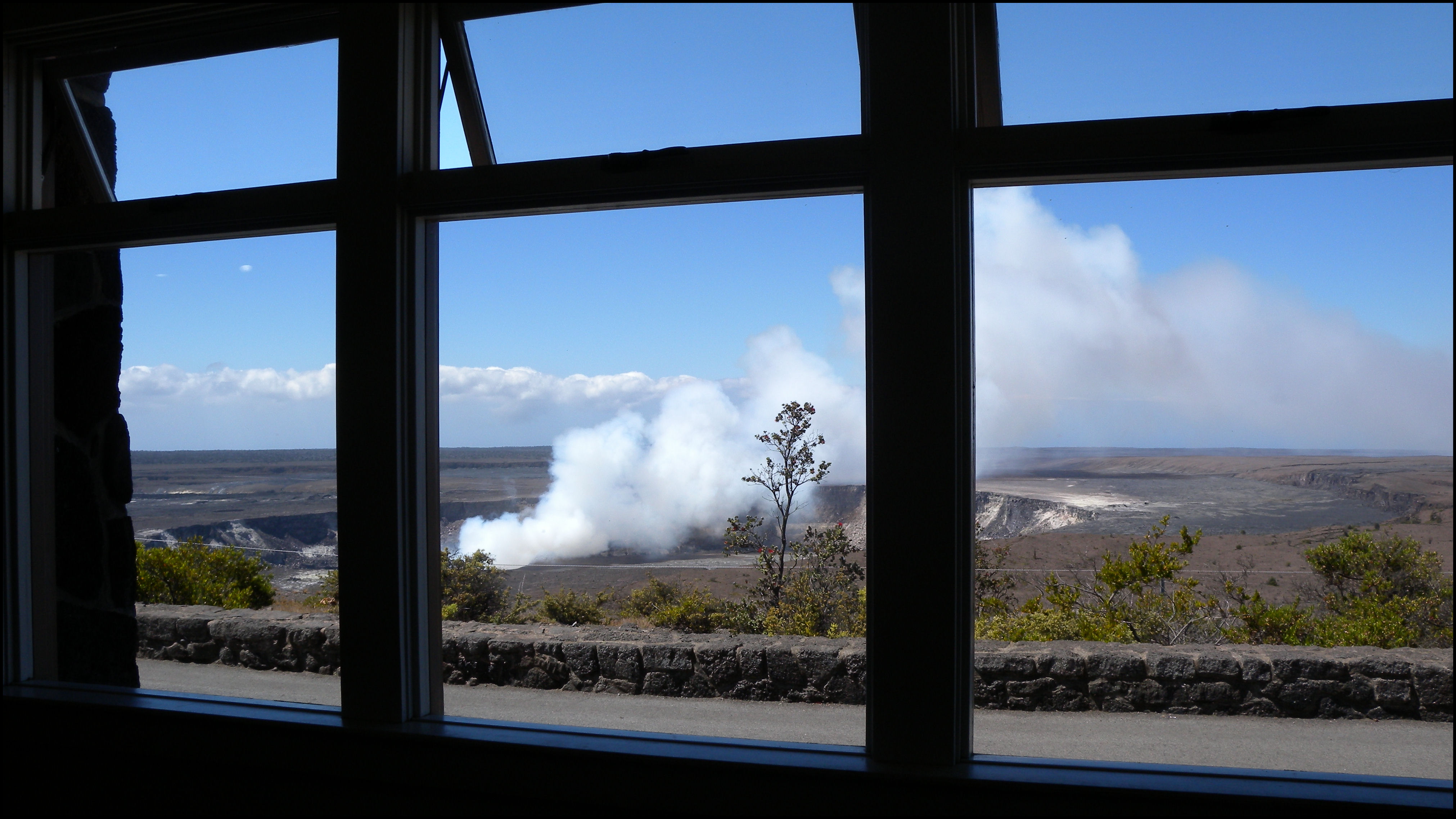 from the window inside the Jaggar Museum